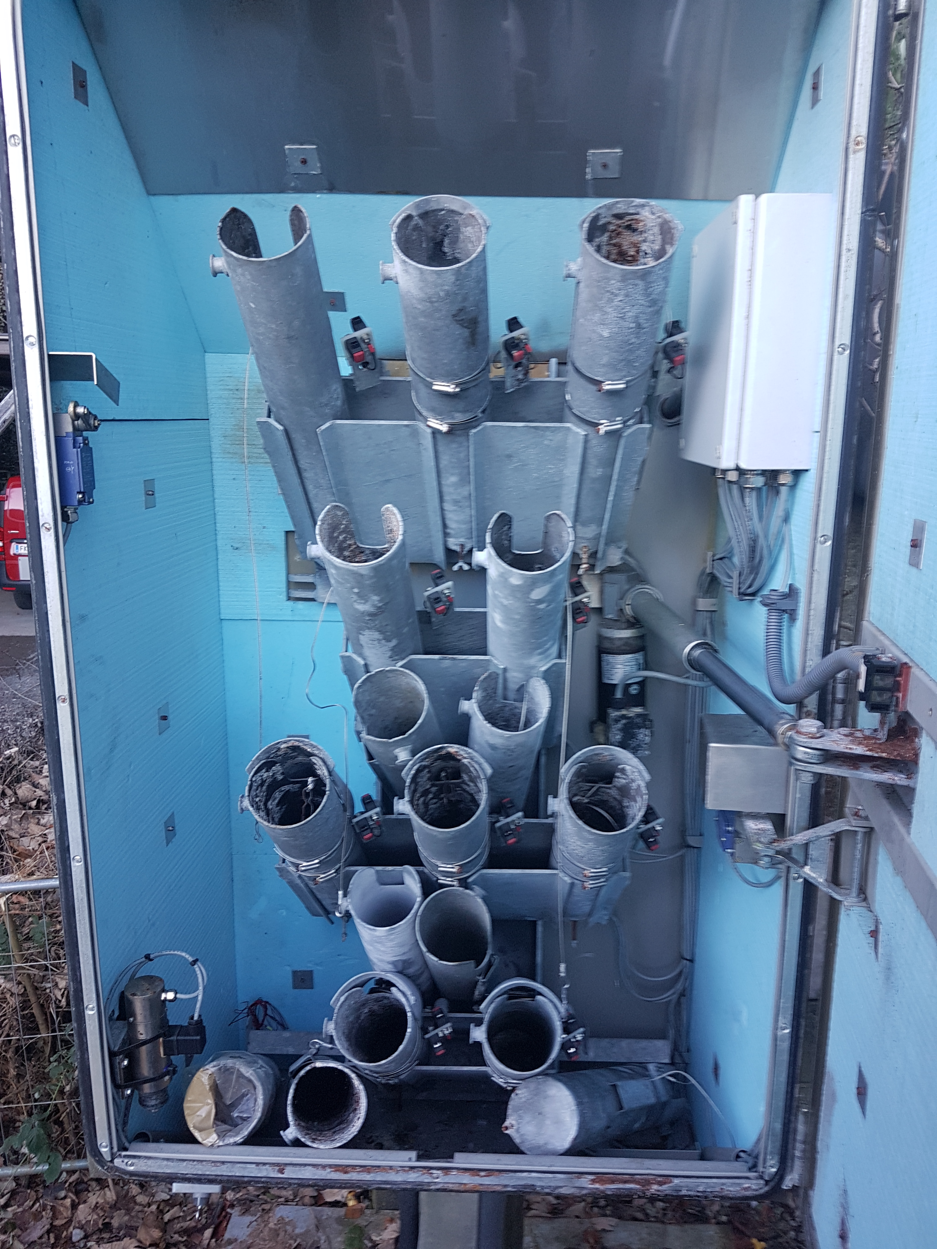 Lawienenwaechter (Avalanche guardian).